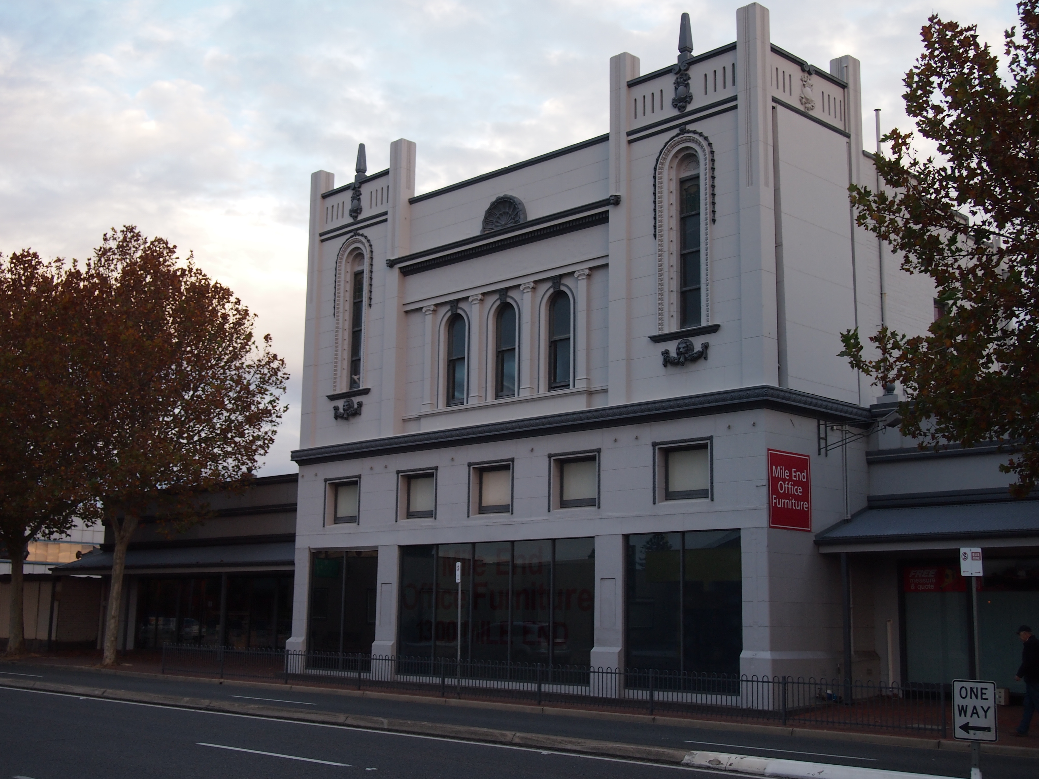 Former Star Theatre, Mile End, South Australia, built 1915-6, now an office furniture retail store Original filename = P5182300.JPG